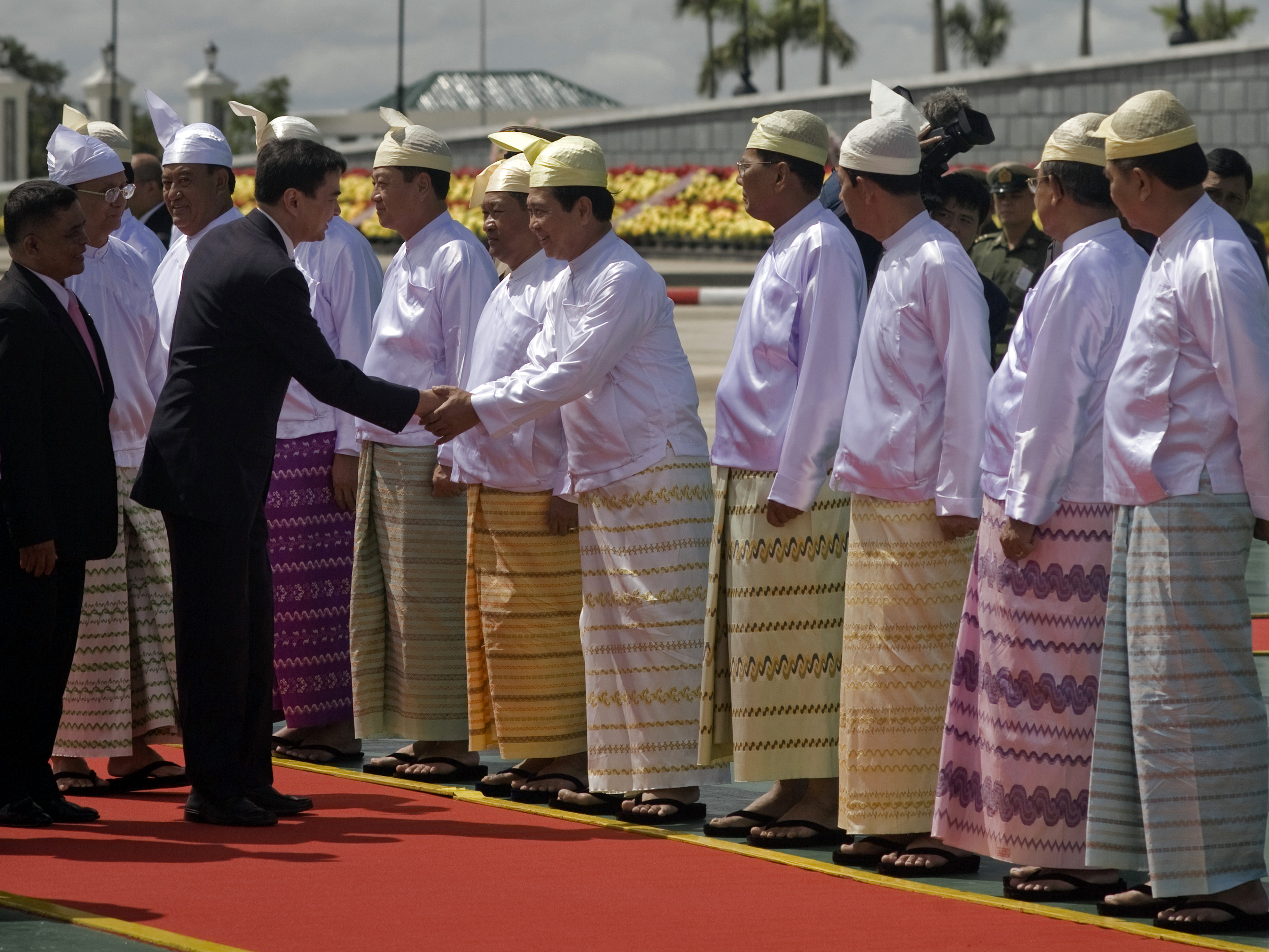 Burmese State Peace and Development Council members greet Abhisit Vejjajiva in October 2010 visit